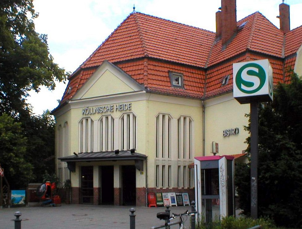 The Berlin S-Bahn station Köllnische Heide